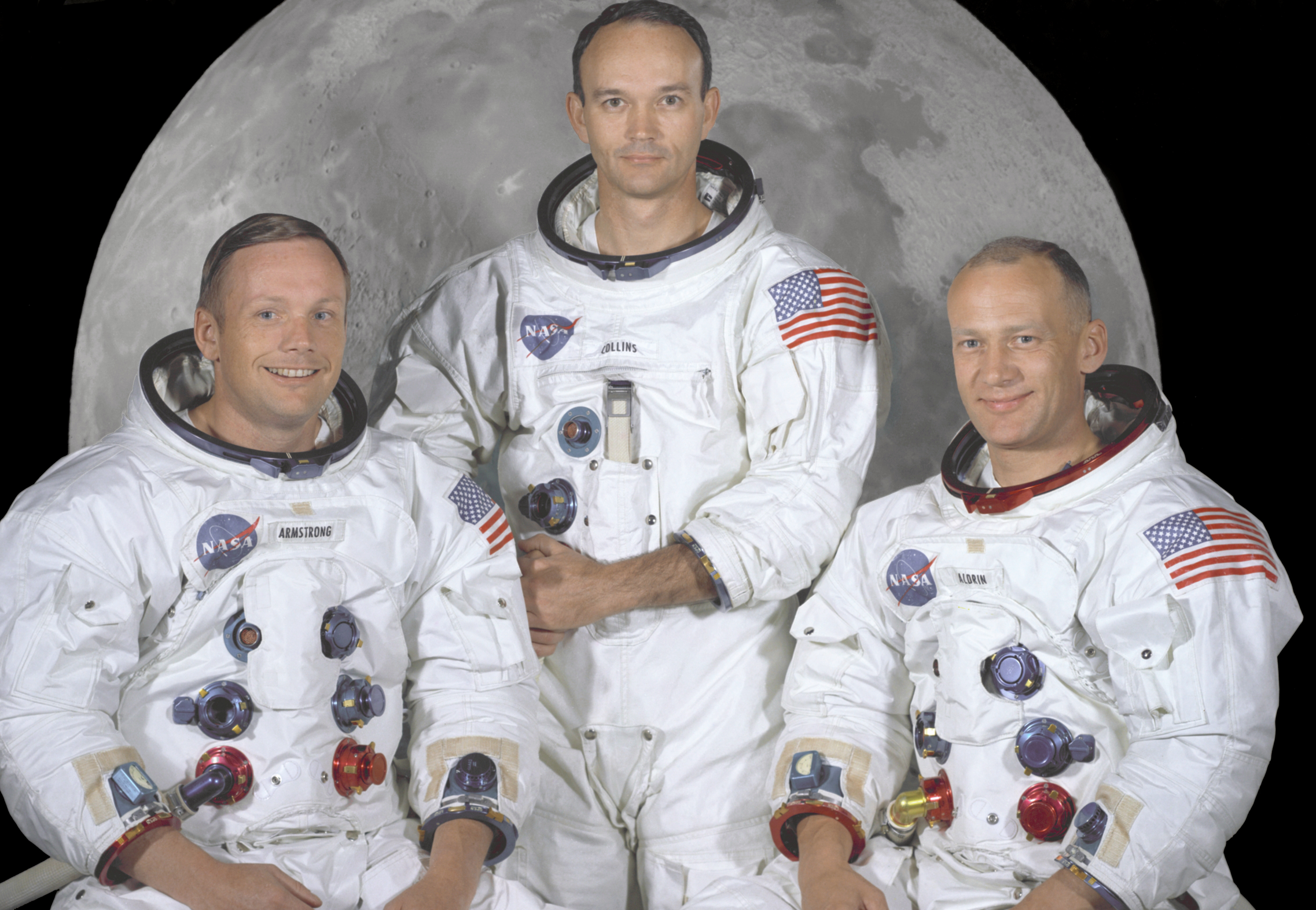 Portrait of the prime crew of the Apollo 11 lunar landing mission. From left to right they are: Commander, Neil A. Armstrong; Command Module Pilot, Michael Collins; and Lunar Module Pilot, Edwin E. Aldrin Jr.